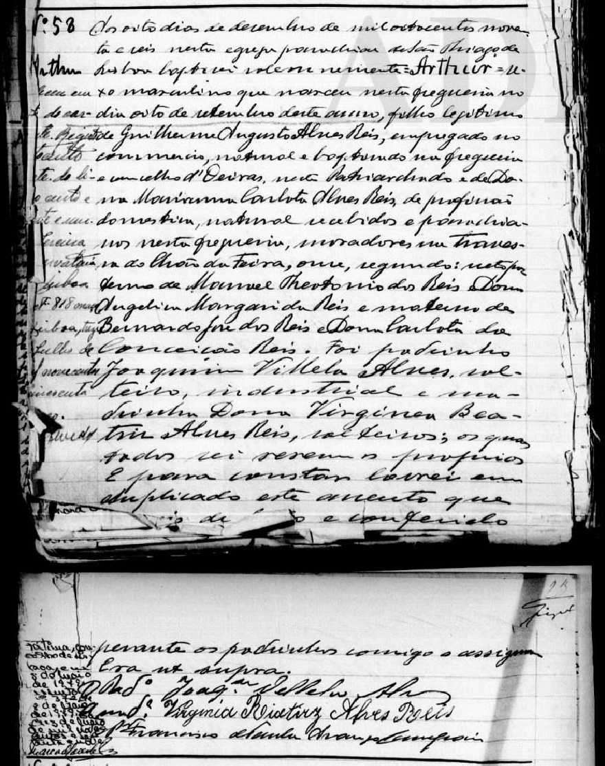 Baptism record of Artur Alves dos Reis, dated 8 December 1896 (Saint James Parish, Lisbon)